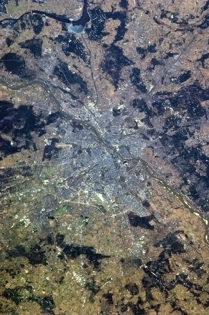 "Warsaw, capital of Poland, split by the Vistula River as it flows to the Baltic." Caption by astronaut Chris Hadfield on board the International Space Station.